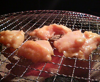 Abomasum of the cow